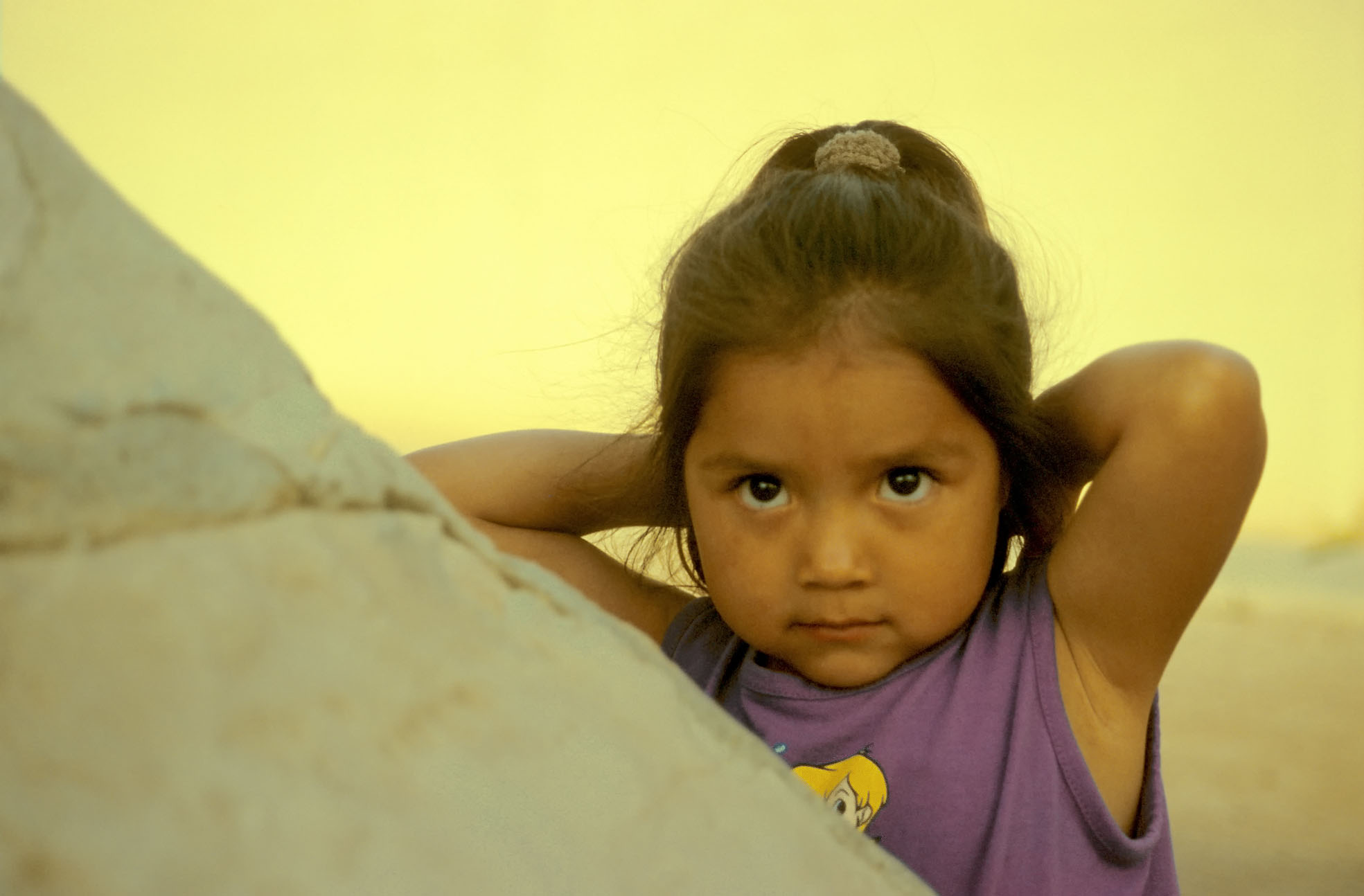 Girl in the Hopi Reservation in Arizona, United States in the year 1997.